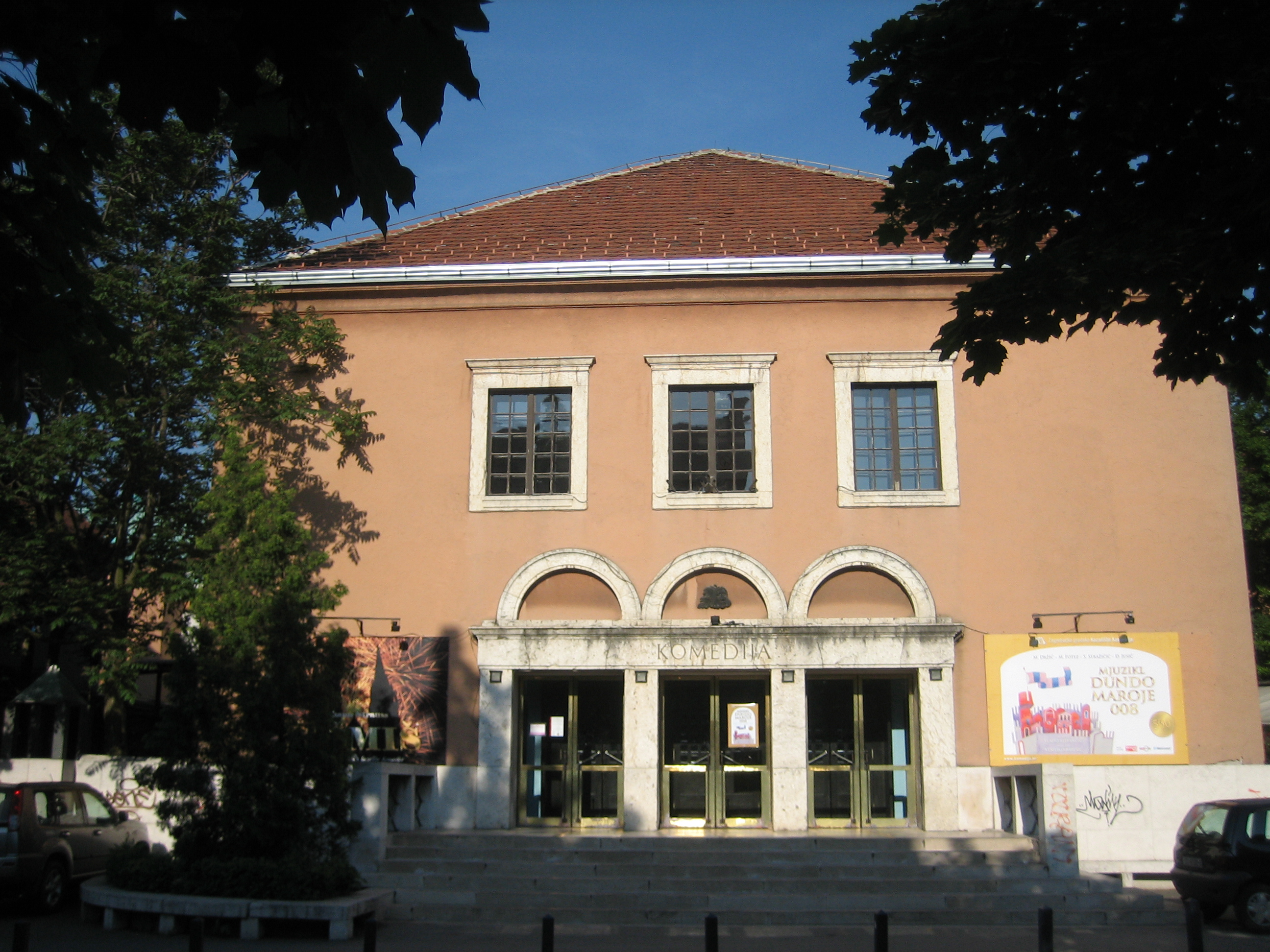 "Komedija" theatre in Zagreb, Croatia. Once part of the Franciscan Monastery.